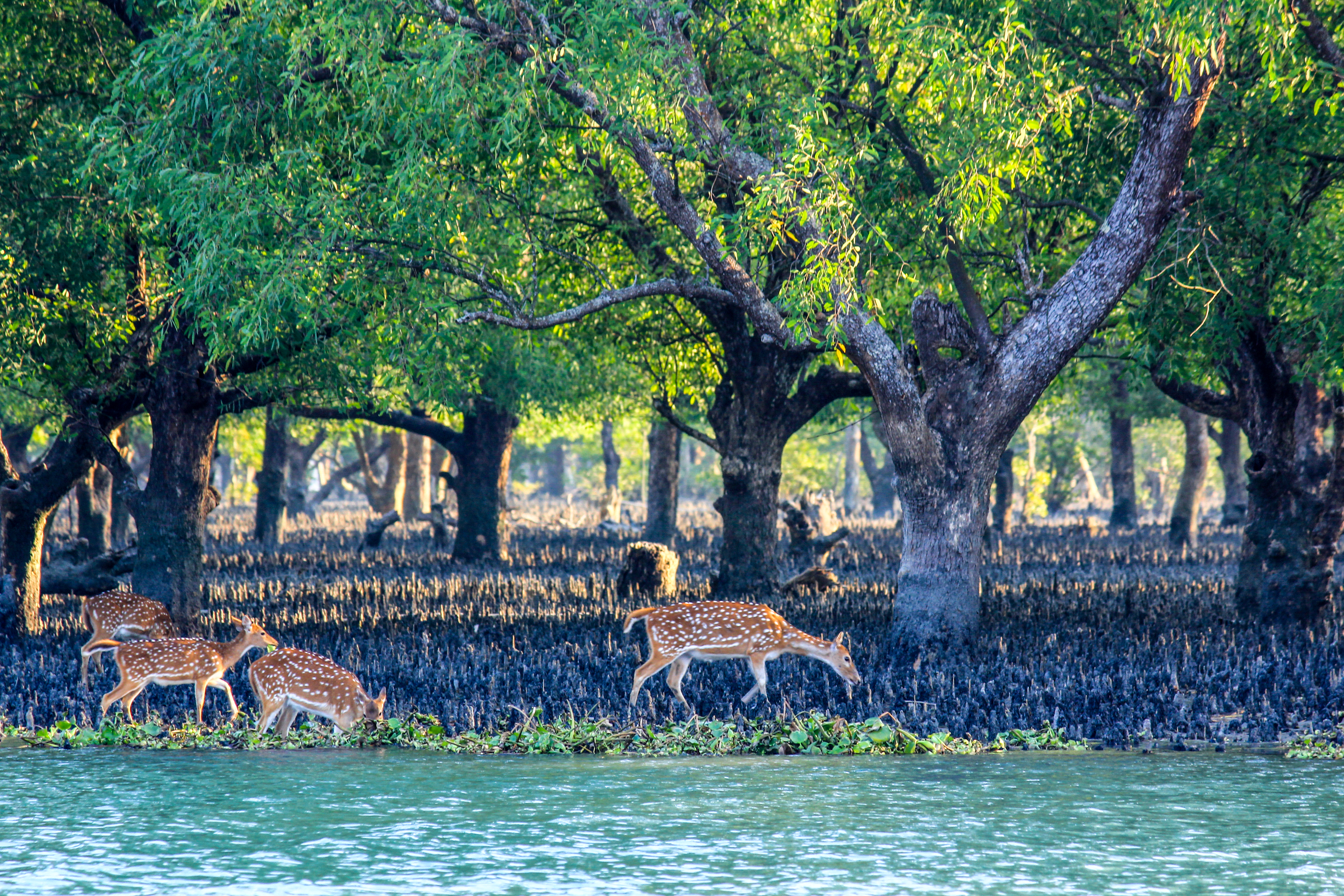 beauty of Sundarban river ,Bangladesh